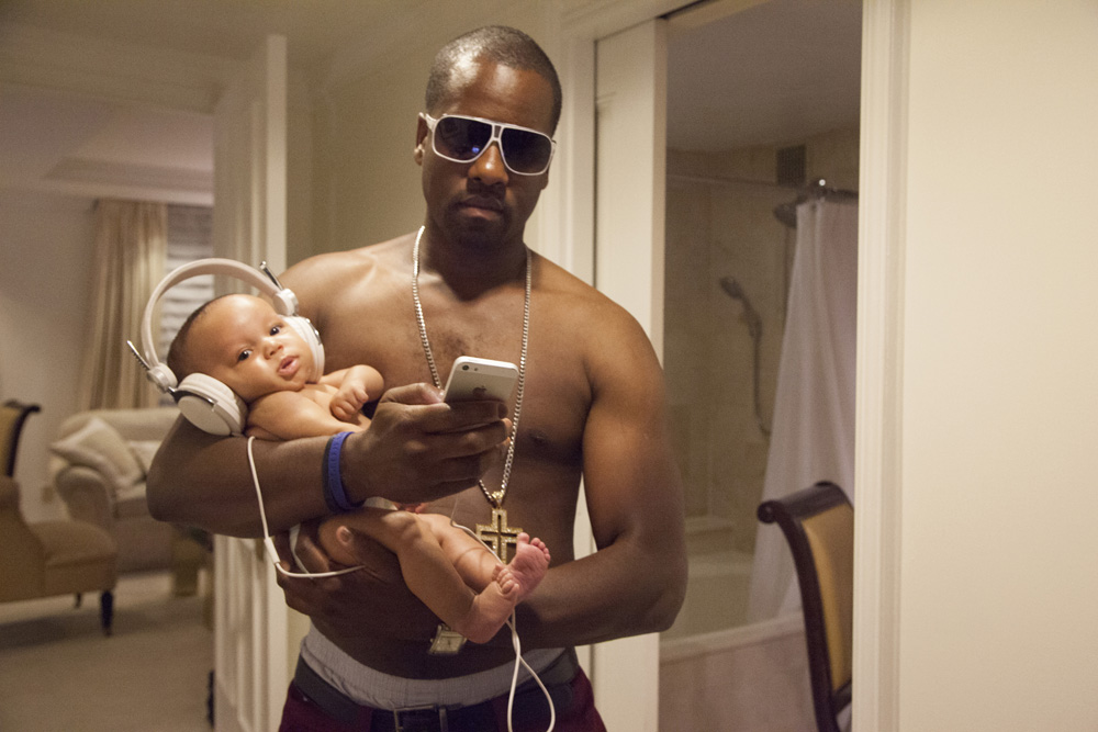 MG 4915 KANYE BABY HEADPHONES LoRes - work of Alison Jackson